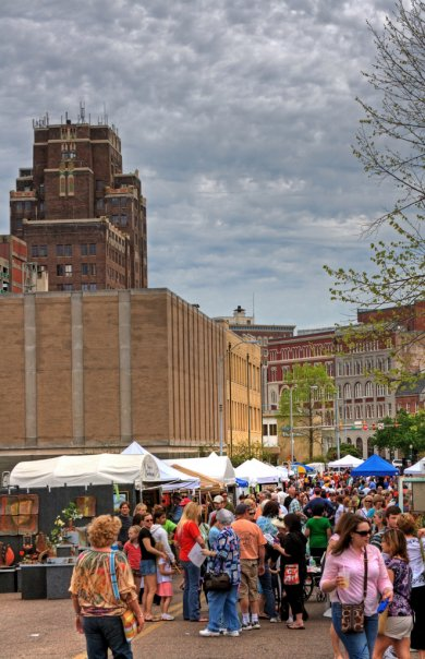 Attendees of the Threefoot Festival line the streets of Meridian. The Threefoot Building can be seen in the background.